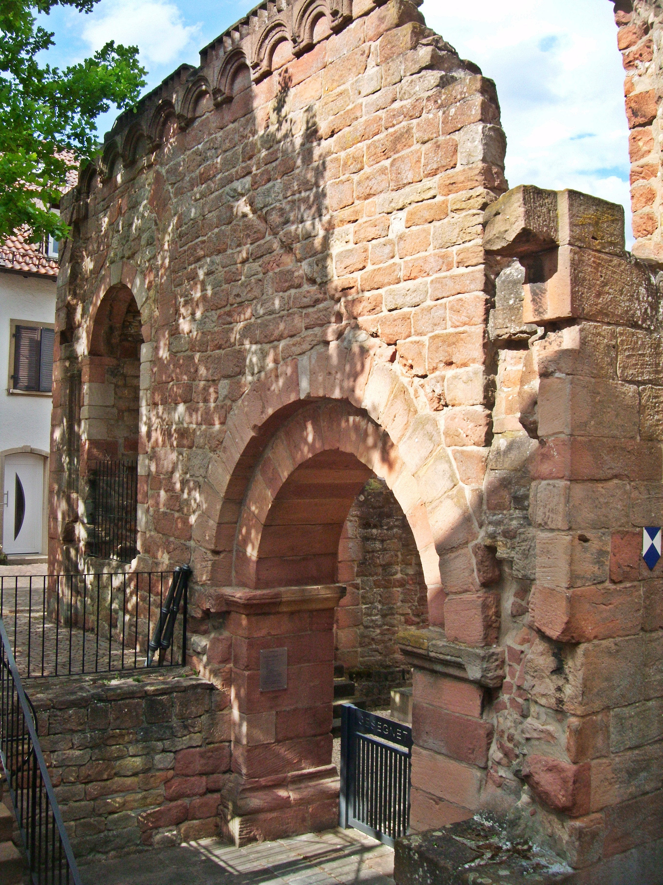 Seebach Klosterkirche Westfassade nördliches Querschiff